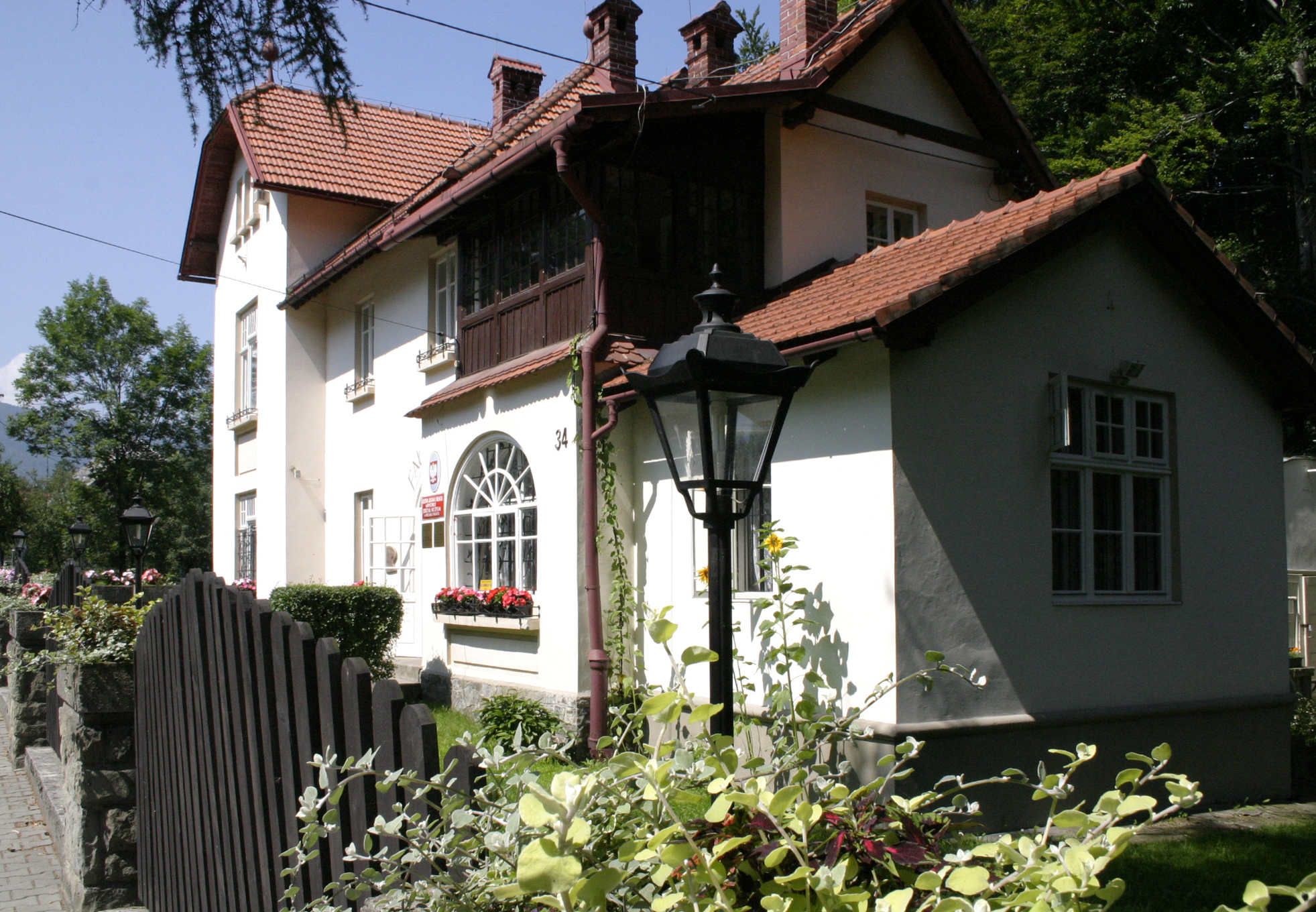 Julian Fałat's Villa and muzeum dedicated to him in Bystra Śląska